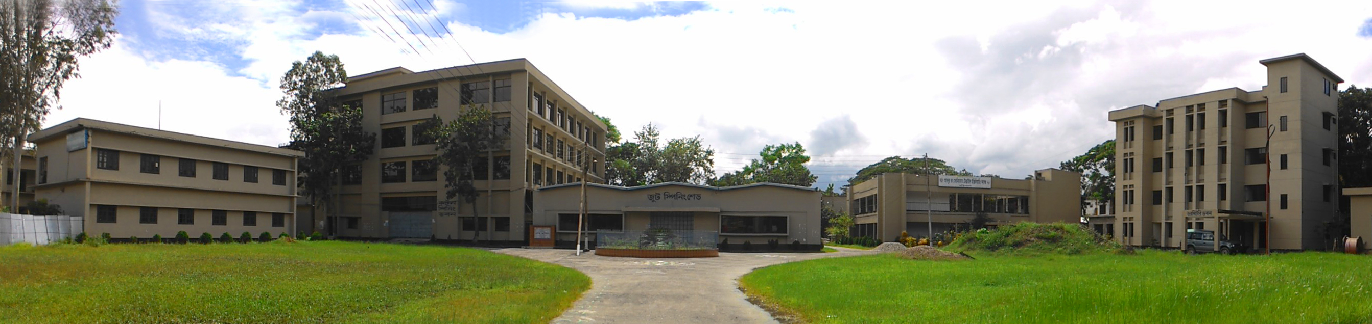 Abdur Rab Serniabat Textile Engineering College, Barisal, Bangladesh